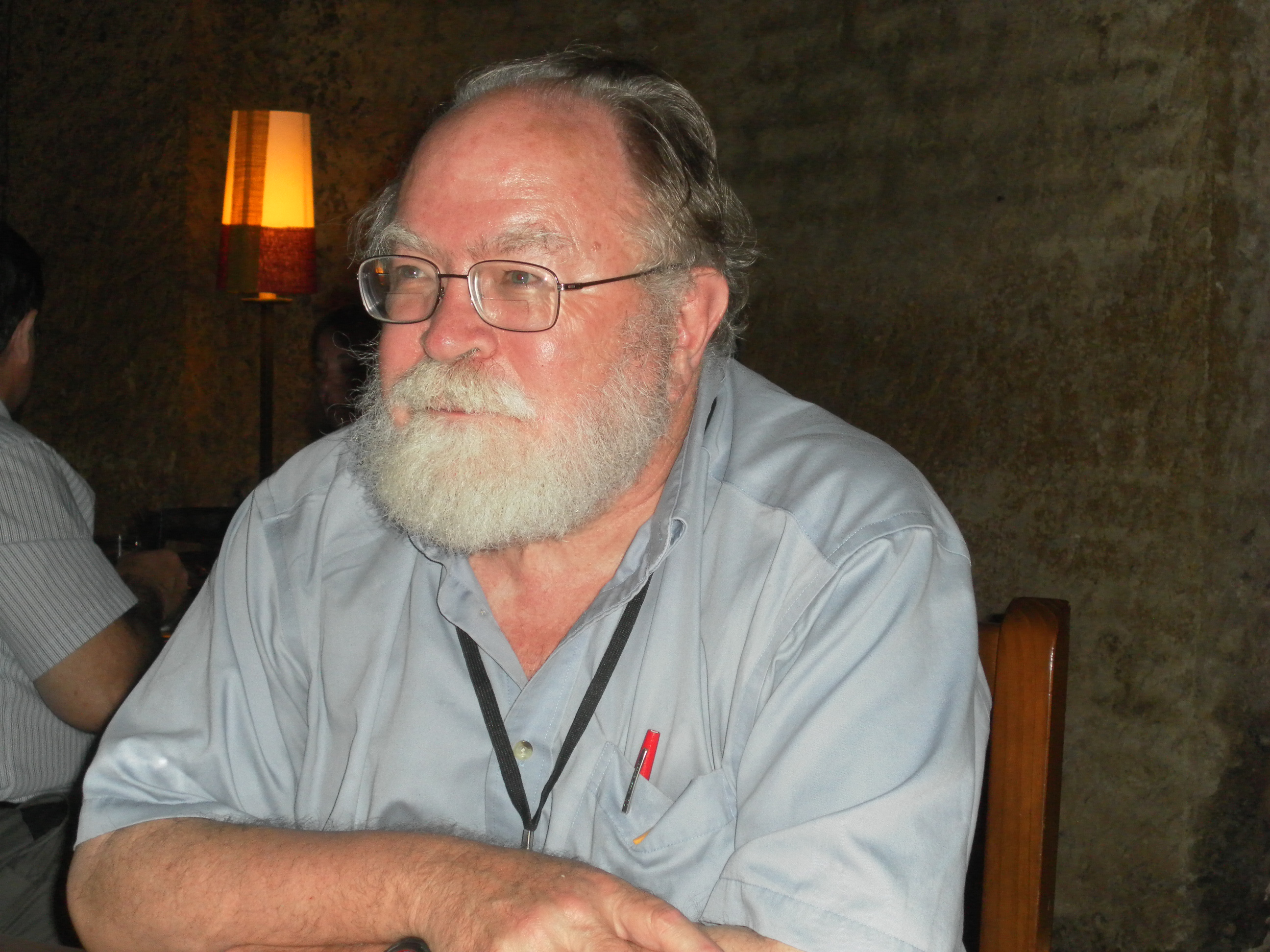 This is the famous physicist and mathematician James Alen Yorke